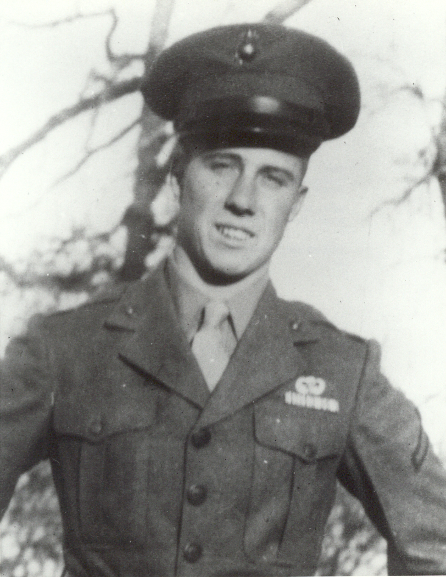 Donald J. Ruhl, USMC; posthumous recipient of the Medal of Honor for his actions during the Battle of Iwo Jima; photo from official Marine Corps biography at